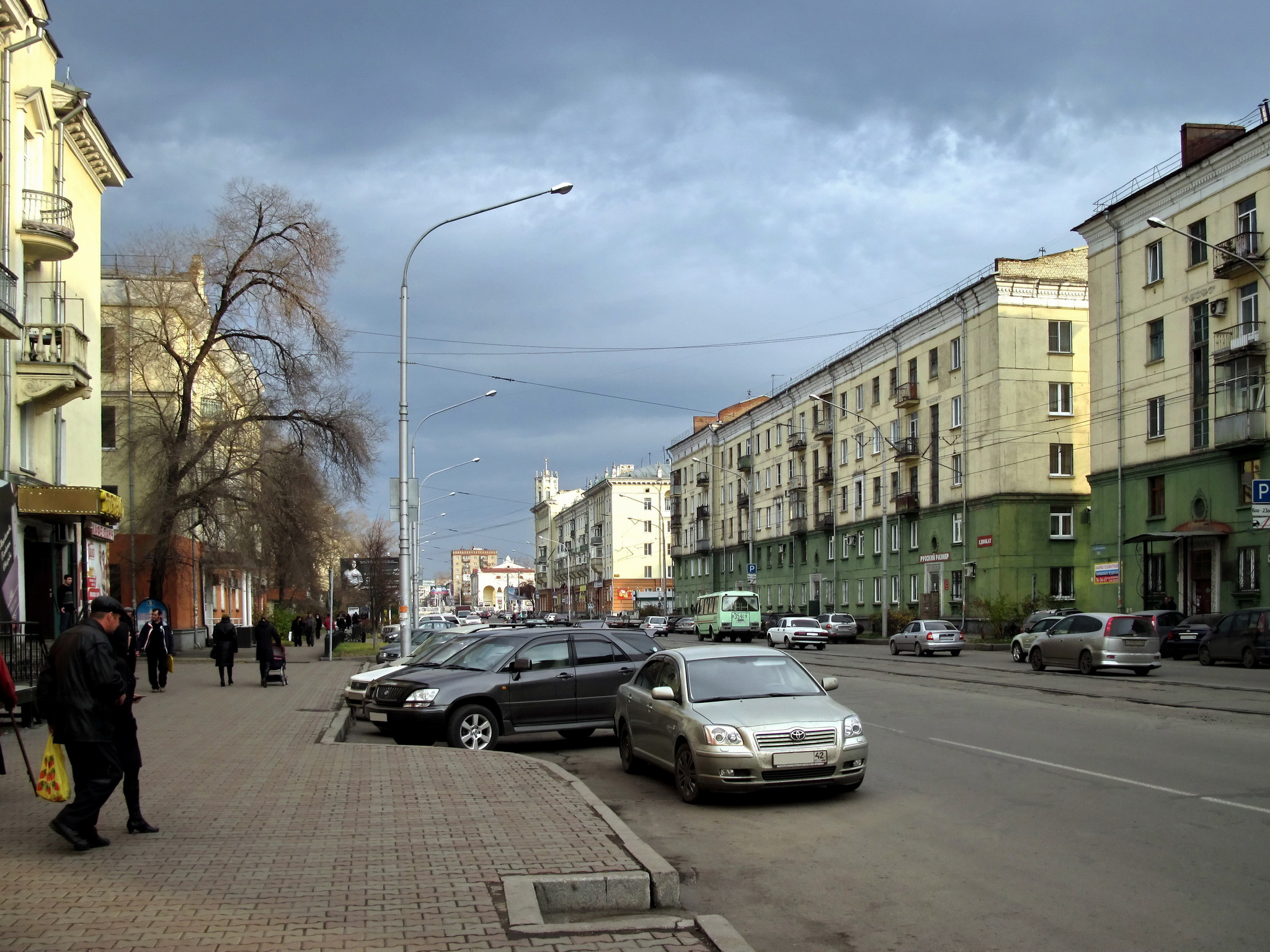 Ordzhonikidze Street in Novokuznetsk, Russia